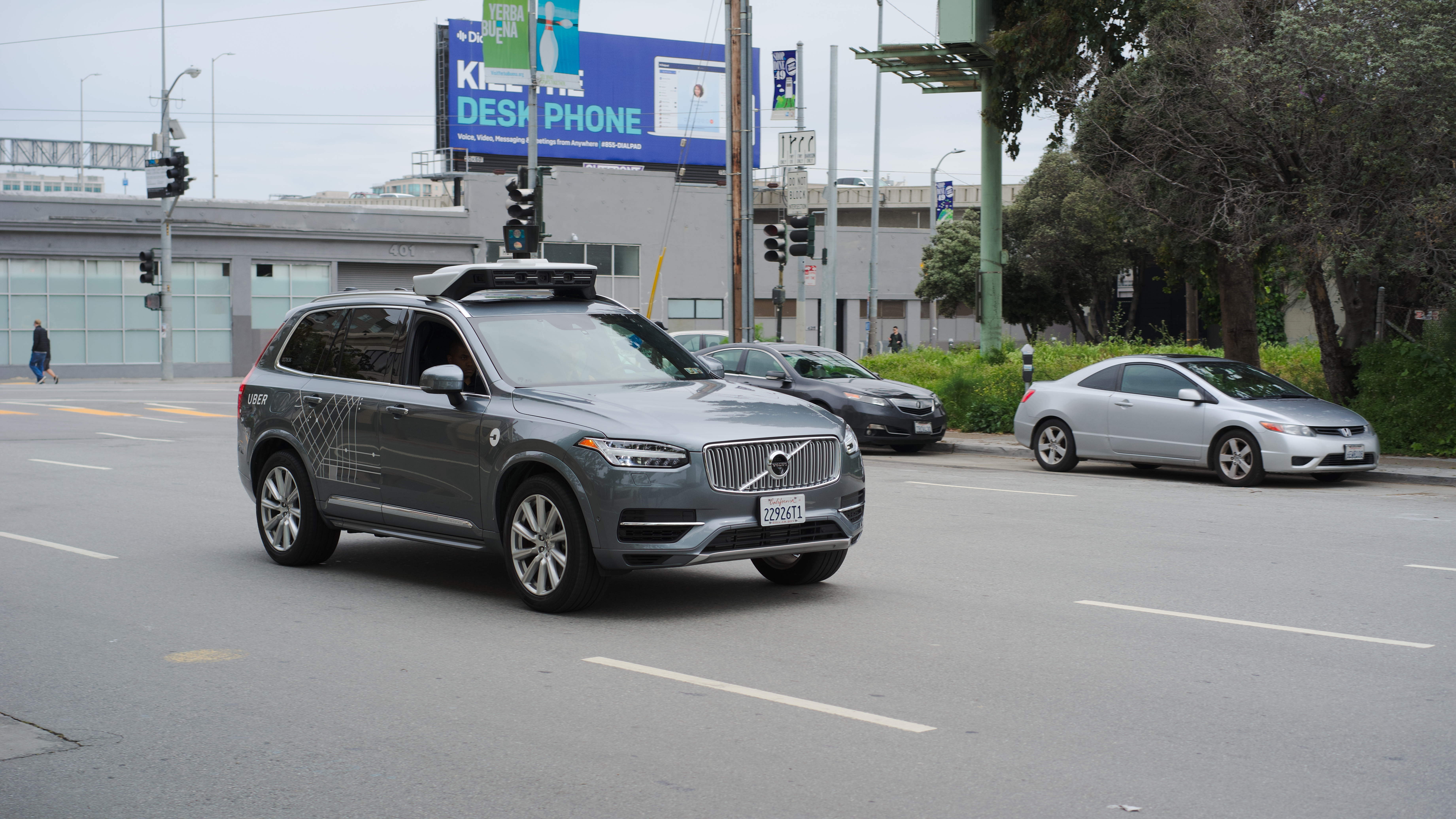 A self driving Volvo XC90 by Uber seen in San Francisco.